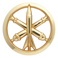 Artillery beret badge.